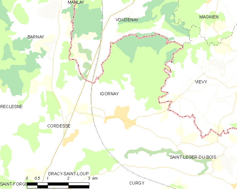 Map of French municipality